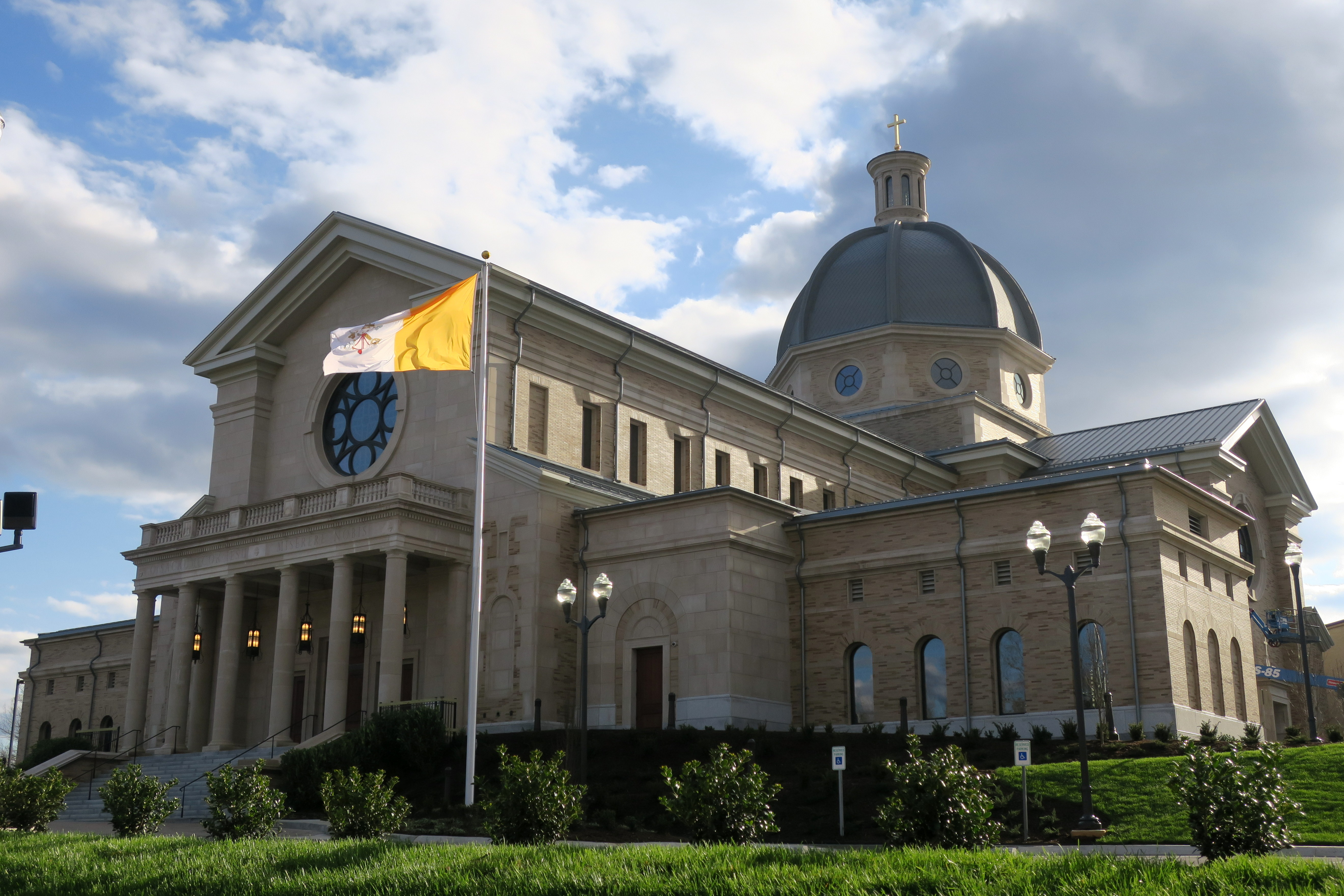 Sacred Heart Cathedral (Knoxville, TN) - exterior